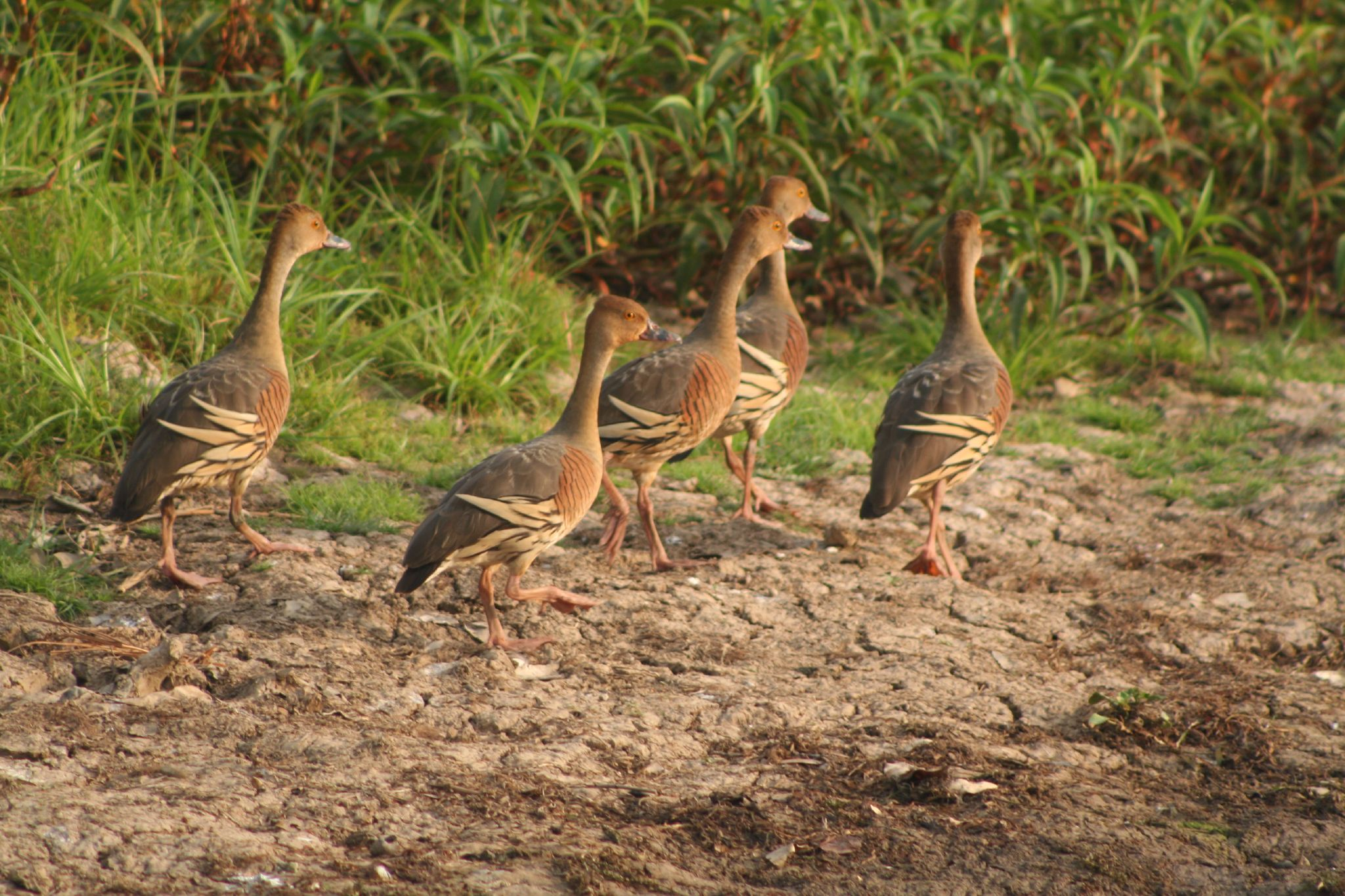 Plumed Whistling Duck (Dendrocygna eytoni). Five ducks walking.